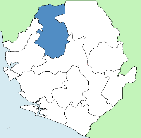 Map showing location of Bo District in Sierra Leone